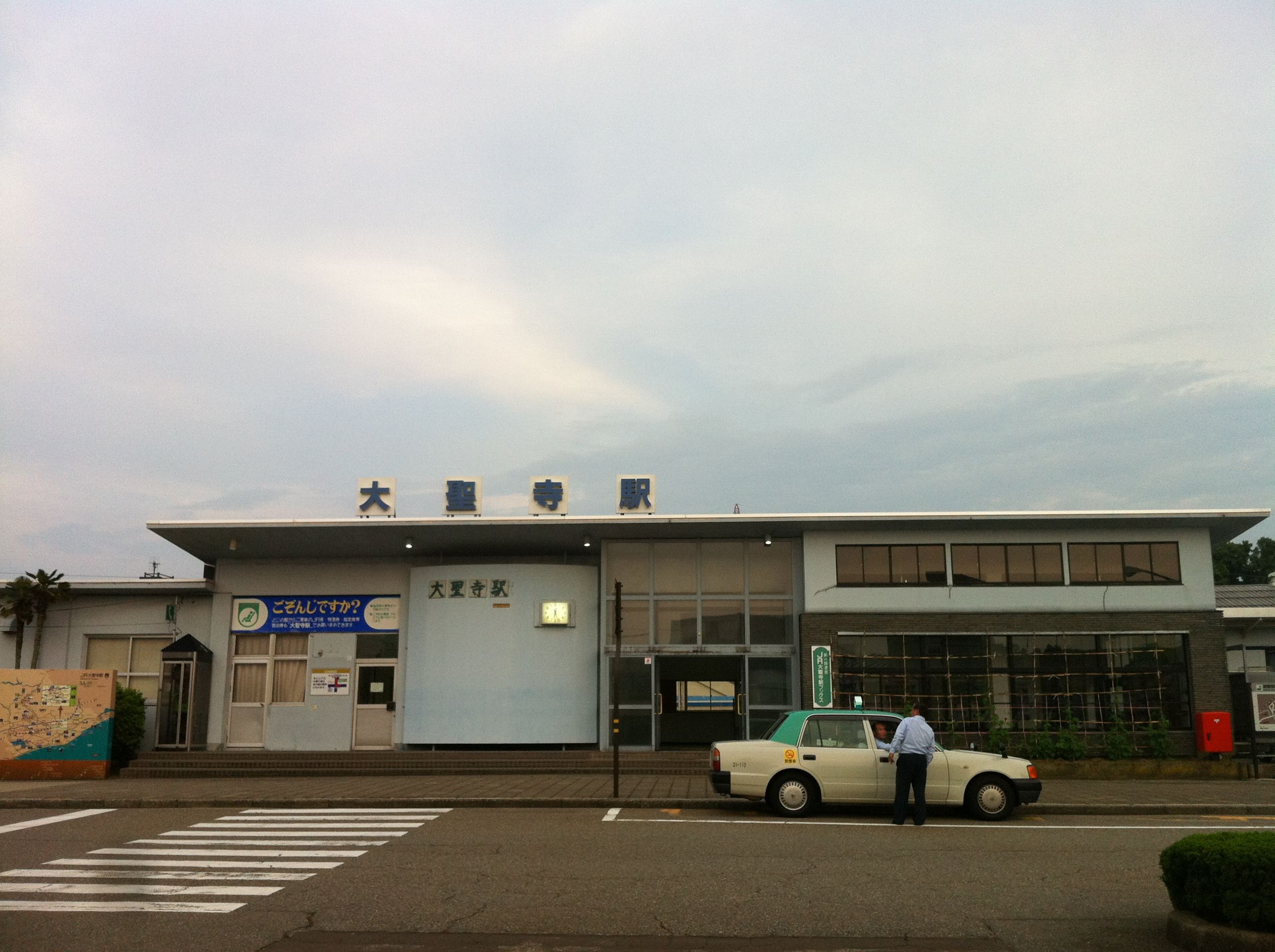 Daishoji Station (大聖寺駅)